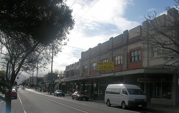 View of Poath Road, Hughesdale. Looking North